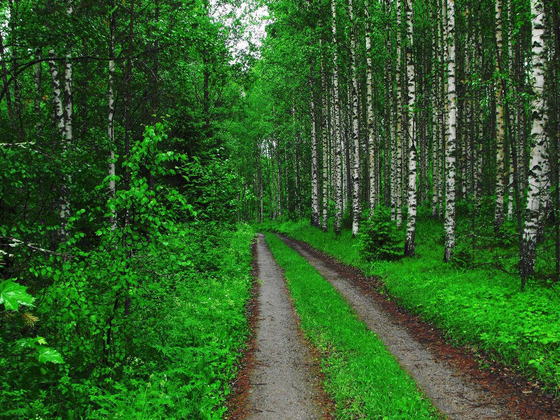 Southern Finland